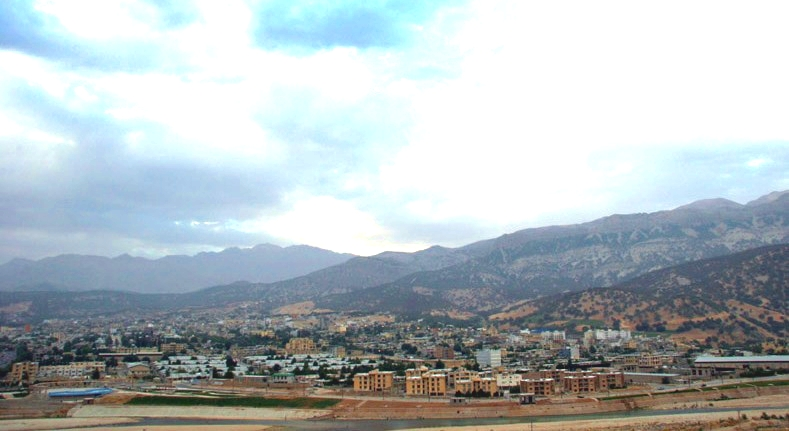 panorama of the city Yasuj in Iran, lighter and more